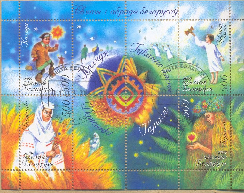 Belarus Folk Holidays and Celebrations Newsletter # 04 (330) February 23, 2009 On March 1, 2009 the Ministry of Communications and Informatization of the Republic of Belarus will issue a souvenir sheet “Belarus folk holidays and celebrations” prepared by the Publishing Centre “Marka” of the EUR “Belpochta”. Designer: Anna Romanovskaya. Printing: offset. Colour: multicoloured. Paper: chalk-surfaced, gummed. Perforation: comb 13¾: 13½. Souvenir sheet composition: 4 stamps & 4 coupons (4x2). Size of the stamps in the souvenir sheet: 26x37 mm. Size of the souvenir sheet: 122x93 mm. Print quantity: 20.000 souvenir sheets. There are elements of protection on the stamps.